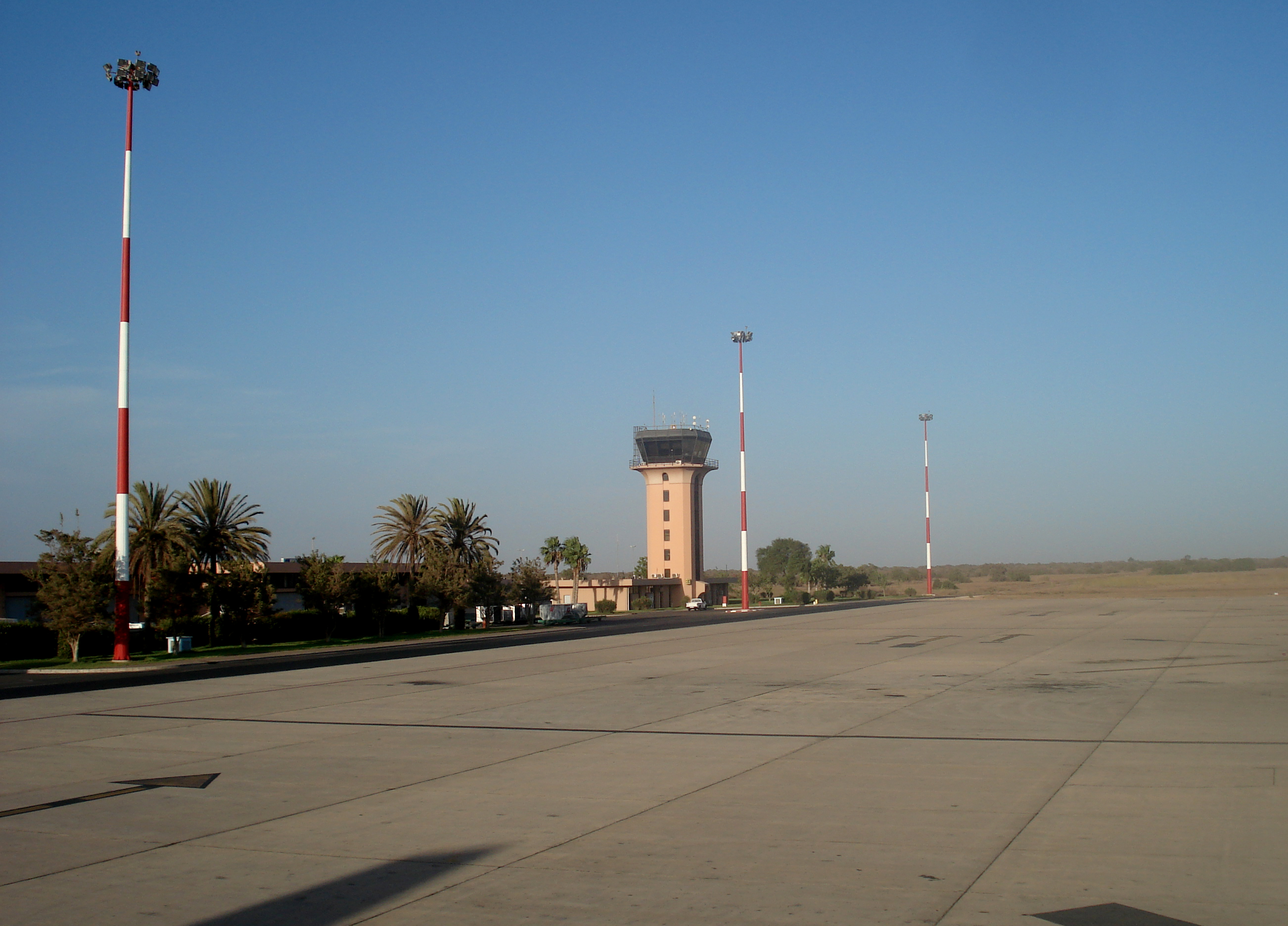 Control tower at Agadir Airport